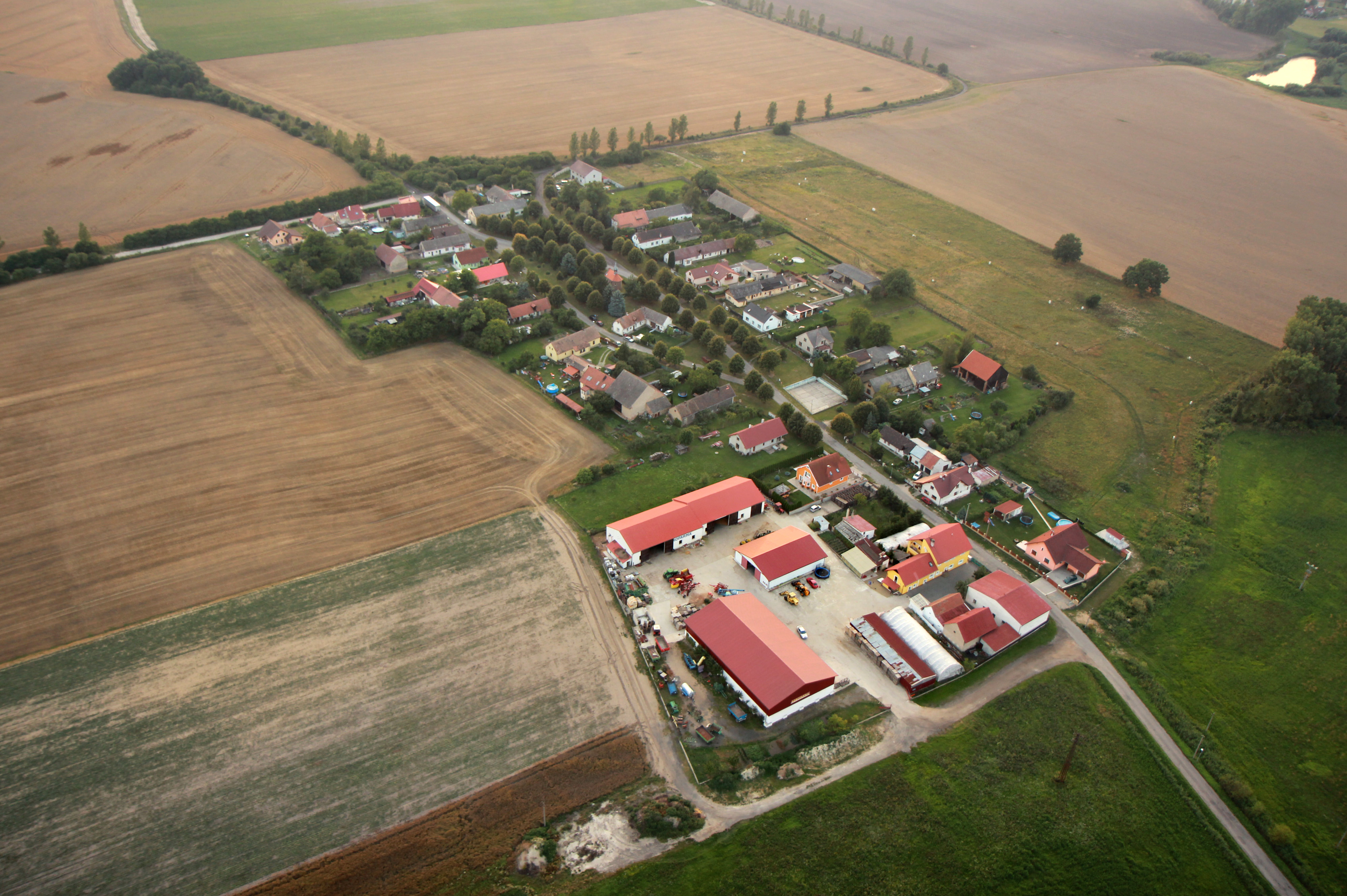 Aerial view of Újezdec, part of Smilovice village, Czech Republic